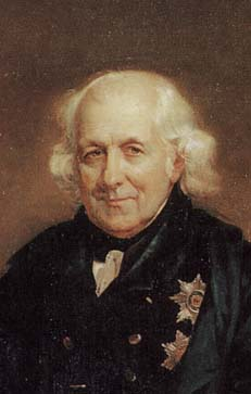 Count Nikolay Mordvinov (1754-1845).